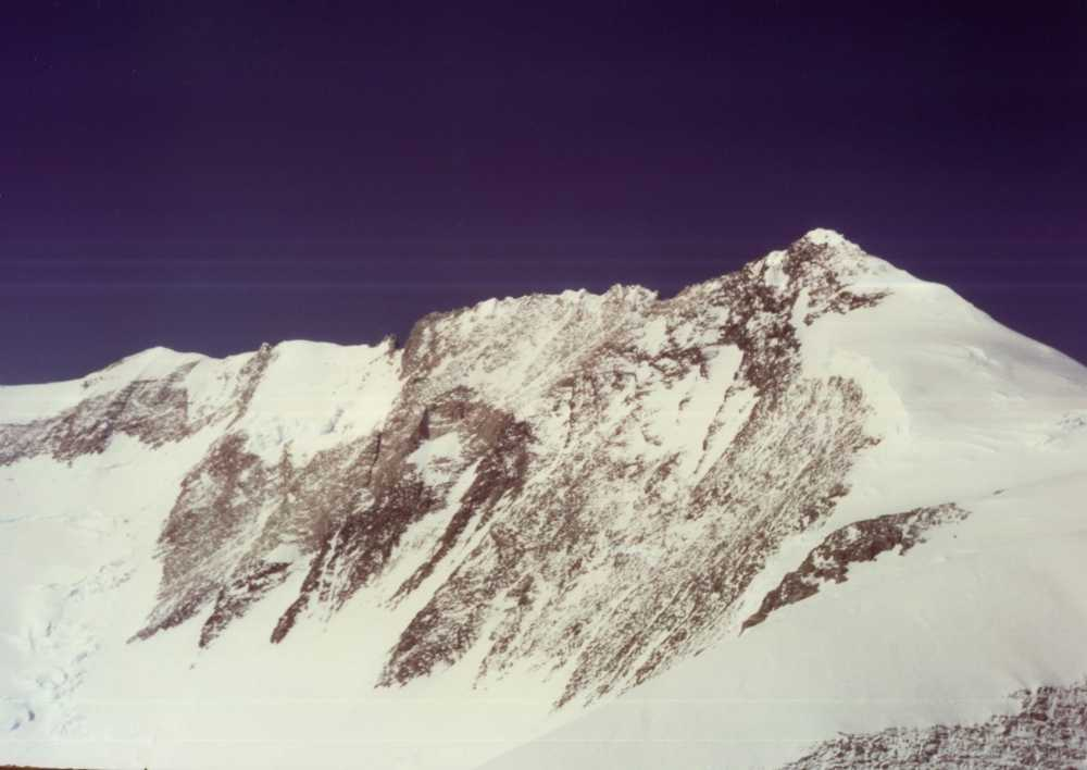 Mount Press is located at 78°09′18″S 85°59′45″W. Photo circa 1960.